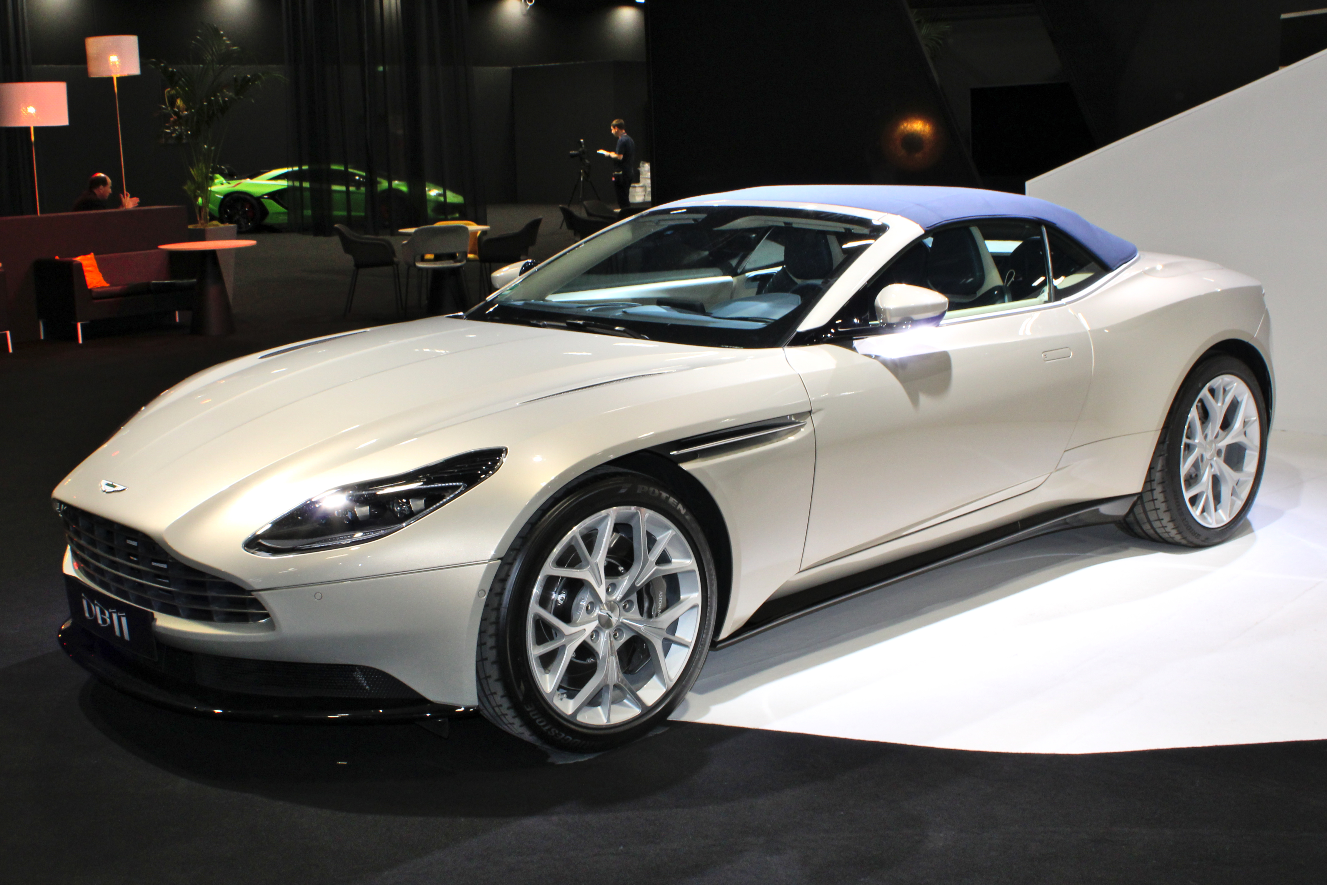 Aston Martin DB11 Volante at Paris Motor Show 2018